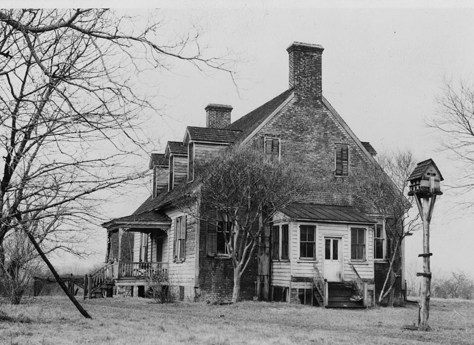 Point Pleasant, Surry County Courthouse vicinity, Surry vicinity (Surry County, Virginia) cropped, HABS VA,91-SUR.V,3-1 This file comes from the Historic American Buildings Survey (HABS), Historic American Engineering Record (HAER) or Historic American Landscapes Survey (HALS). These are programs of the National Park Service established for the purpose of documenting historic places. Records consist of measured drawings, archival photographs, and written reports. When reusing please credit: Library of Congress, Prints & Photographs Division, VA-94 This tag does not indicate the copyright status of the attached work. A normal copyright tag is still required. See Commons:Licensing. This work is in the public domain in the United States because it is a work prepared by an officer or employee of the United States Government as part of that person’s official duties under the terms of Title 17, Chapter 1, Section 105 of the US Code. Note: This only applies to original works of the Federal Government and not to the work of any individual U.S. state, territory, commonwealth, county, municipality, or any other subdivision. This template also does not apply to postage stamp designs published by the United States Postal Service since 1978. (See § 313.6(C)(1) of Compendium of U.S. Copyright Office Practices). It also does not apply to certain US coins; see The US Mint Terms of Use. This file has been identified as being free of known restrictions under copyright law, including all related and neighboring rights.